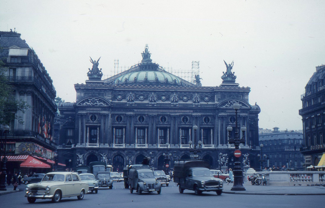 Place de l'Opéra